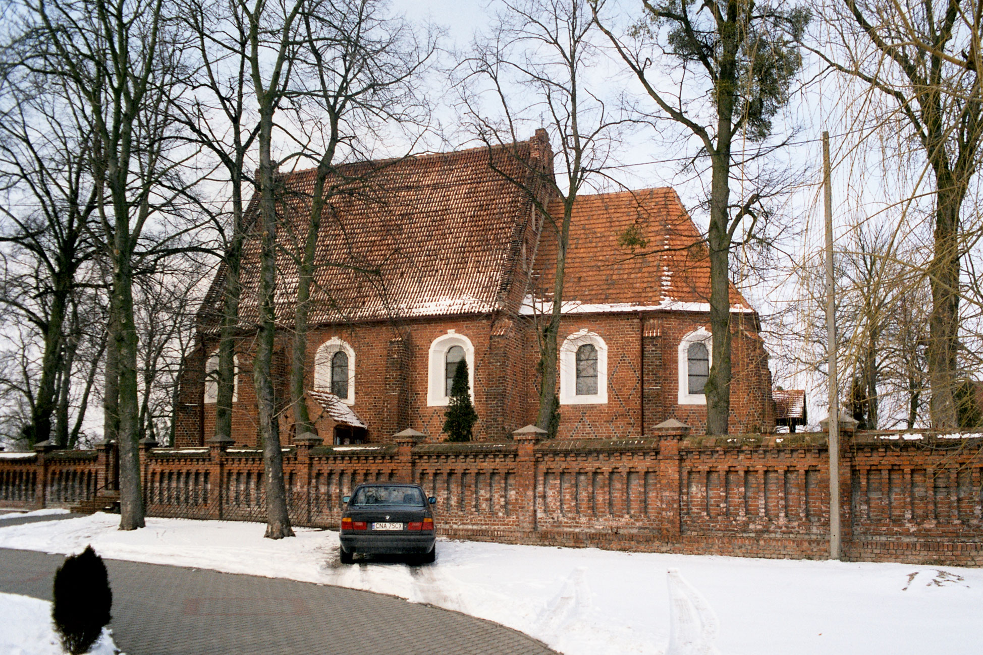 Mogilno, St. Jacob church